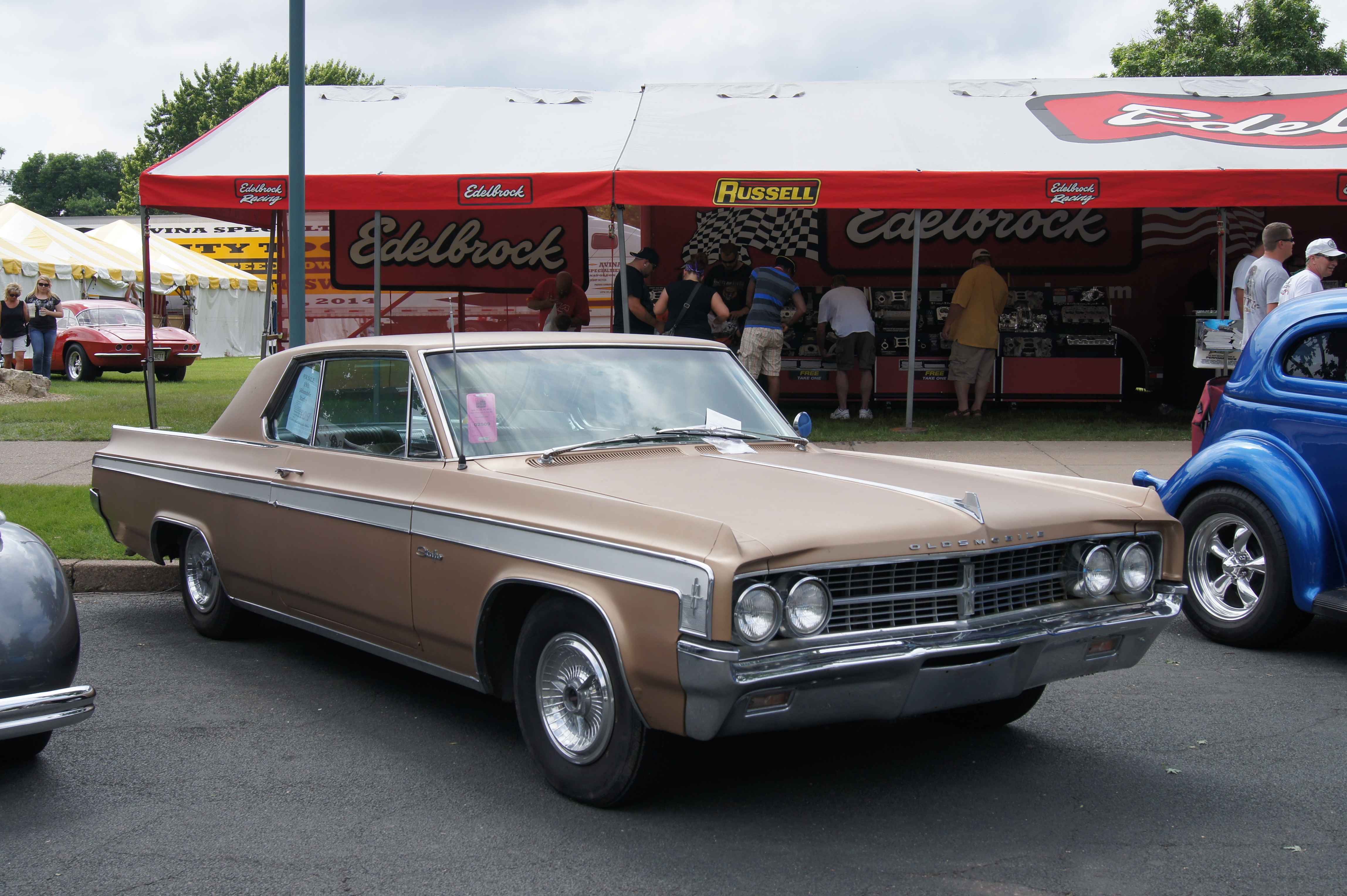 MSRA “BACK TO THE 50′s” 40th ANNIVERSARY June 21-23, 2013 State Fairgrounds St. Paul Minnesota More Car Pictures